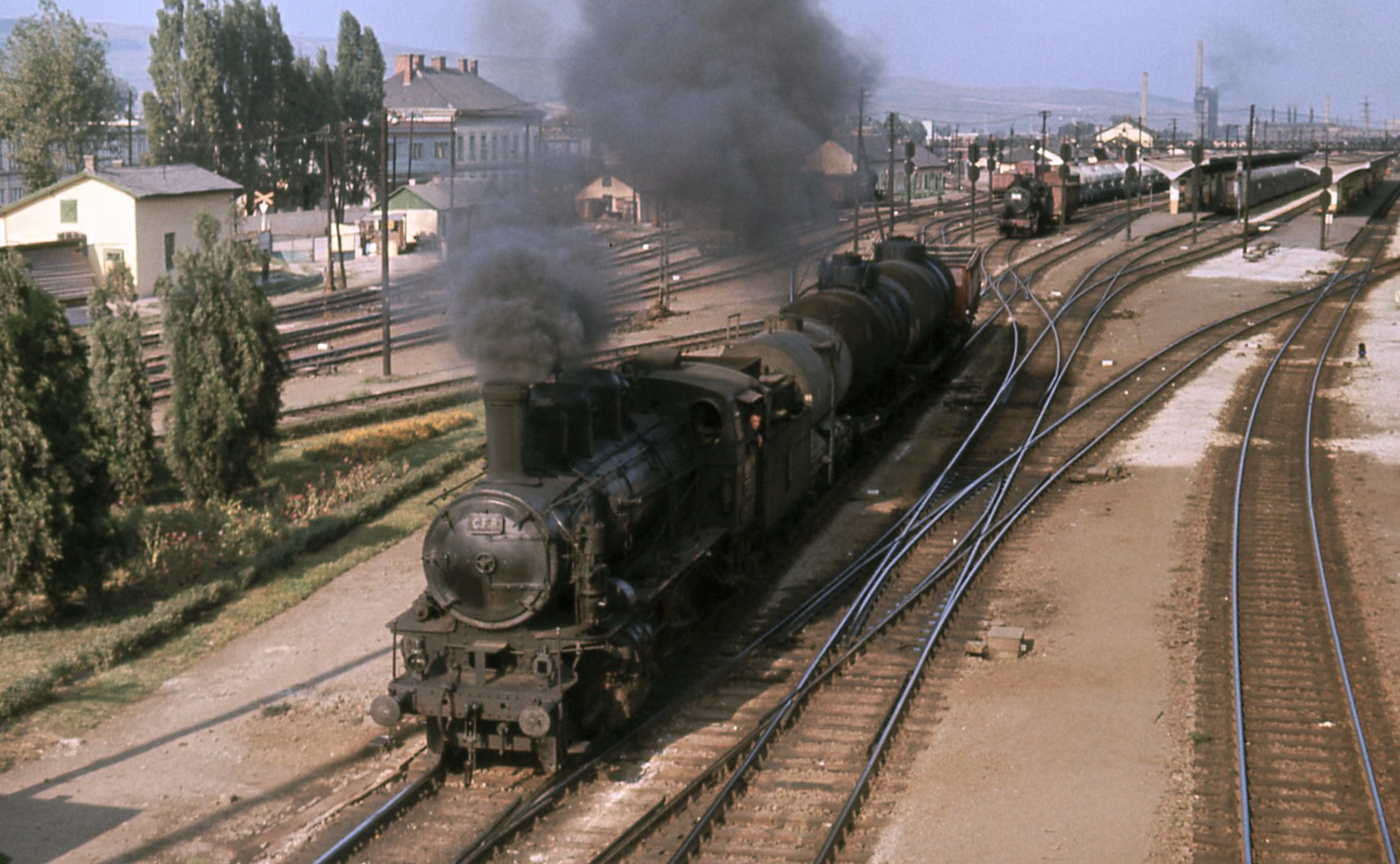 140 and 050 classes shunt at Cluj, August 1972